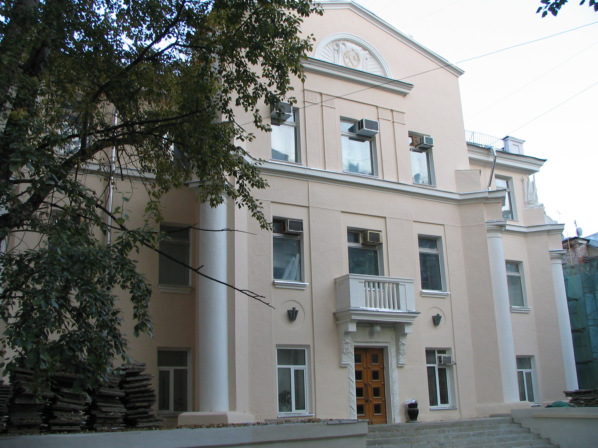 Miliutinsky Lane, 18. Moscow - former Catholic church of St. Peter and Paul